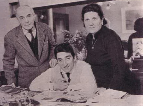 Italian singer Tony Dallara and his parents